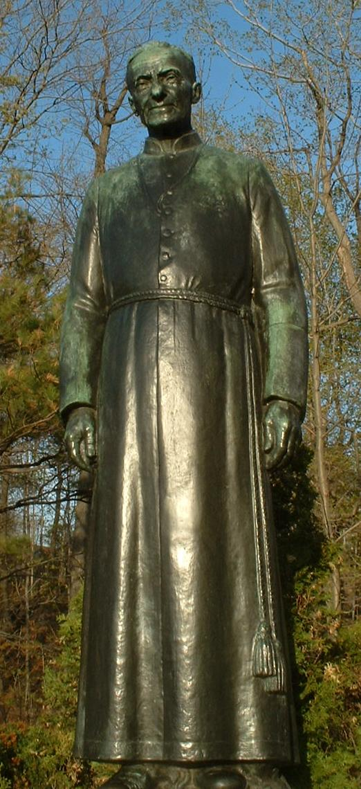 Statue of André Besette which stands near St. Joseph's Oratory. Snapshot by User:aarchiba.